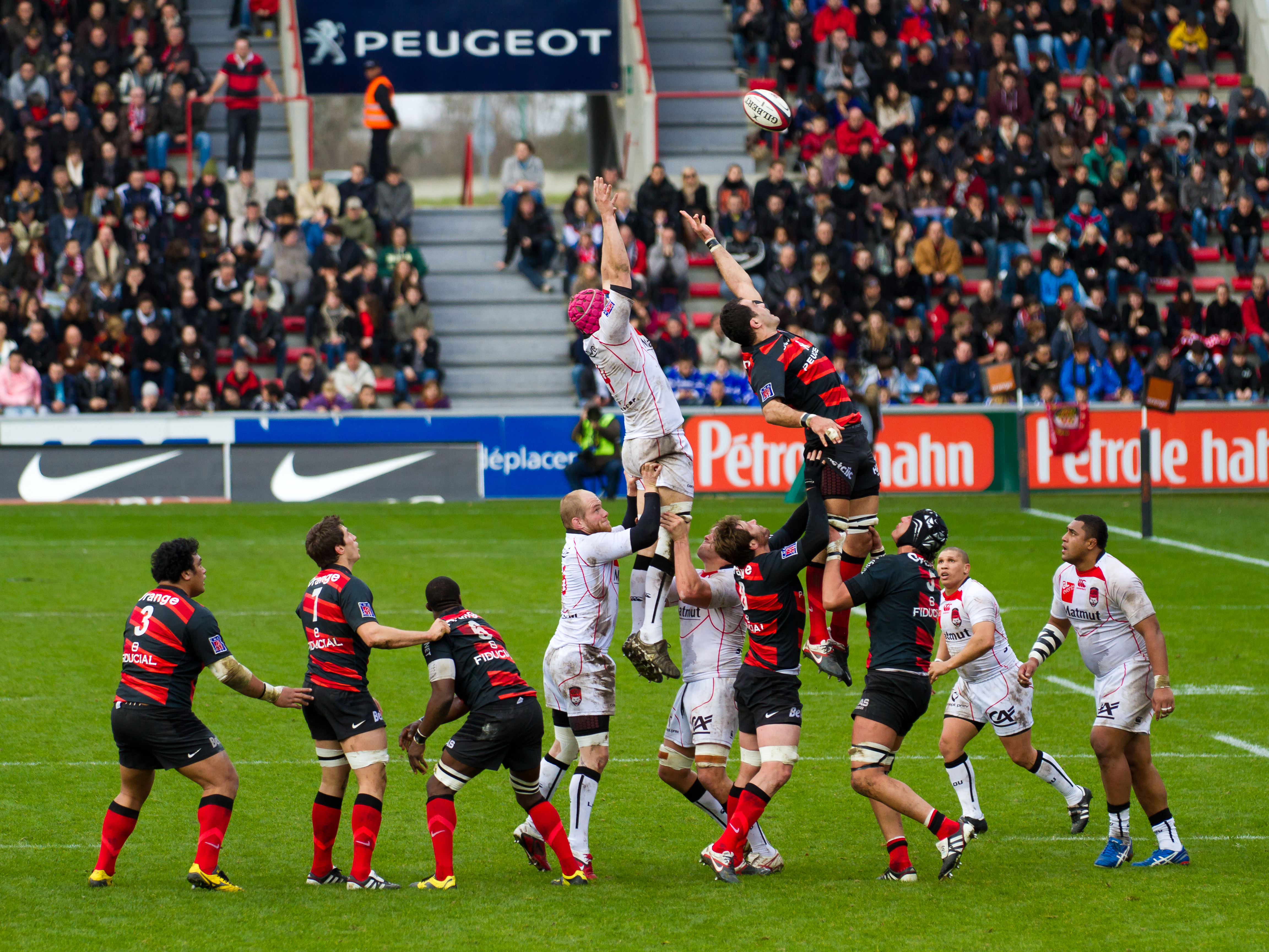 Line-out. From left to right: Stade toulousain: 3 Census Jonhston, 7 Sylvain Nicolas, 6 Yannick Nyanga, 8 Shaun Sowerby, 4 Grégory Lamboley, 5 Patricio Albacete Lyon olympique universitaire: 6 Nicolas Bontinck, 4 Jean Sousa, 5 Coenraad Basson, 9 Enrico Januarie, 8 Sisa Koyamaibole